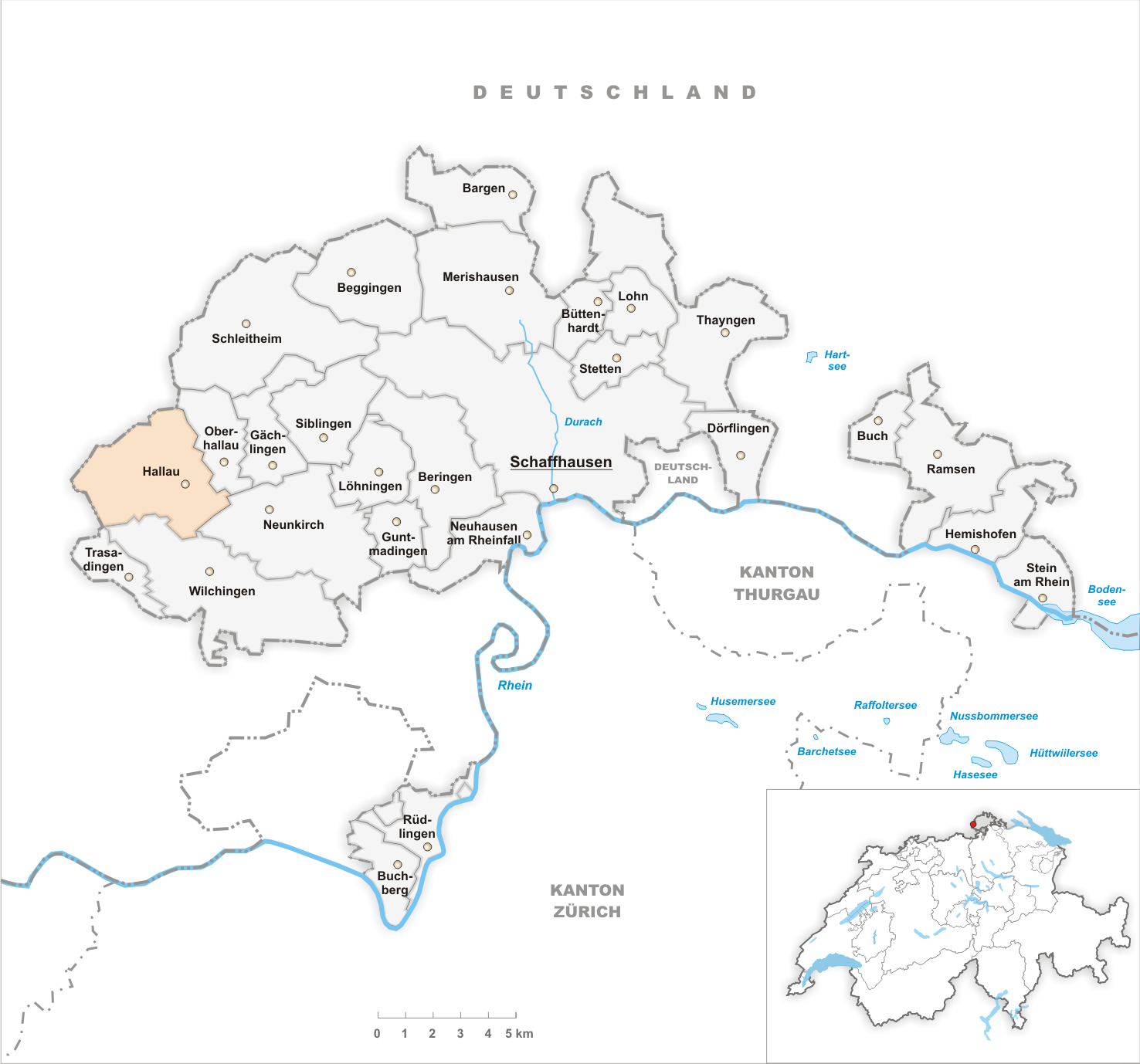 Municipality Hallau